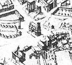 Ruins of Claustrum Cimini, Septimus Severus Arch, 16th centry map of the Roman Forum